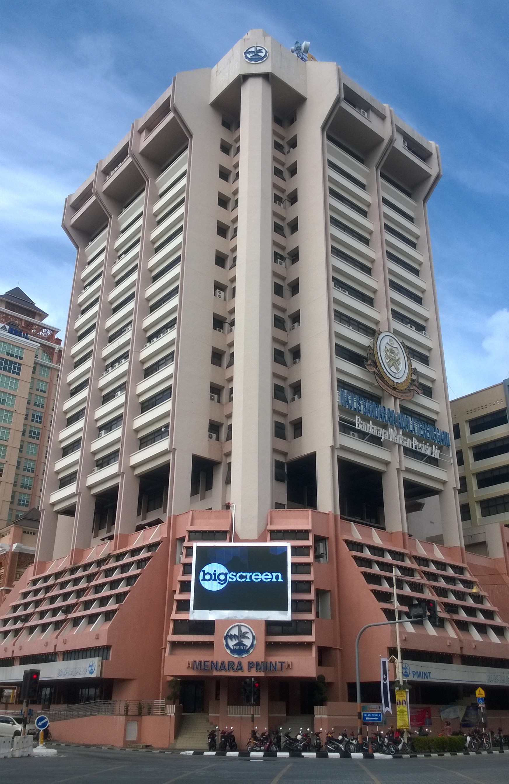 Menara PMINT at the corner between Jalan Sultan Ismail and Jalan Masjid Abidin.